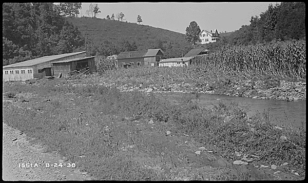 The Pittman Community Center, a Methodist mission school in what is now Pittman Center, Tennessee, USA, photographed in 1938.